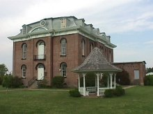 Jacksonport Arkansas - personal photo - rights granted